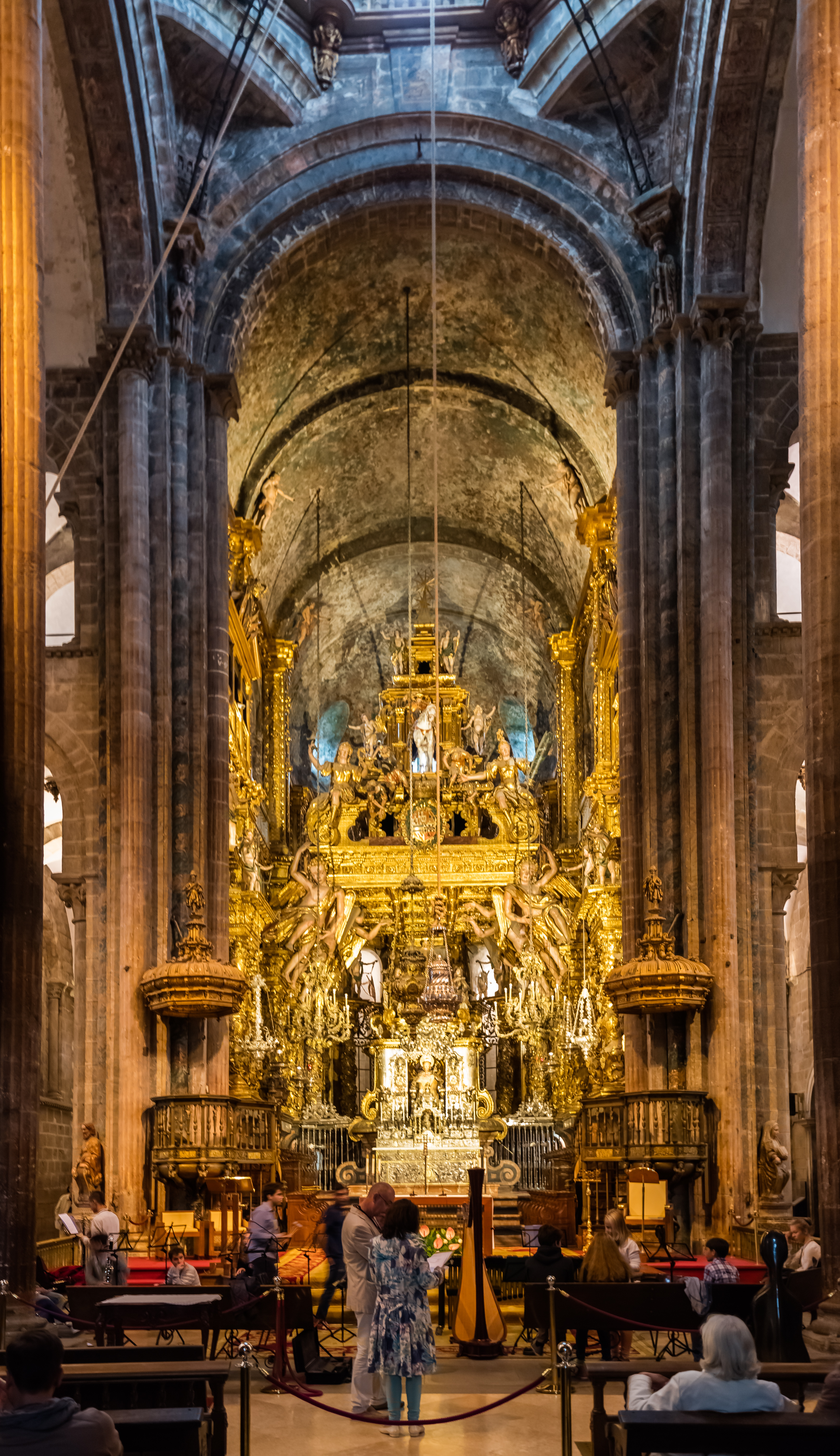 Cathedral, Santiago de Compostela, Spain